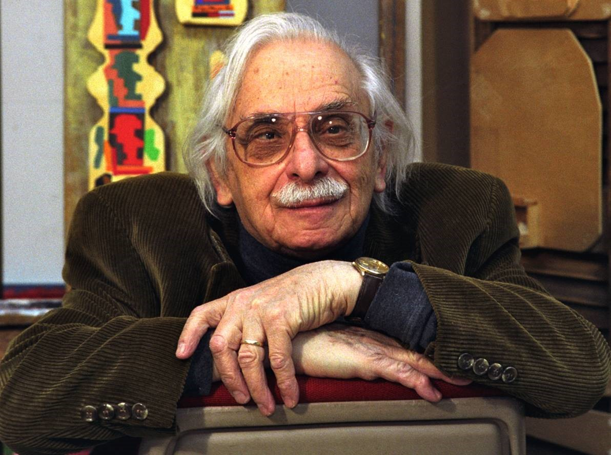 Photo of Marius Sznajderman, by Renan Dario Arango